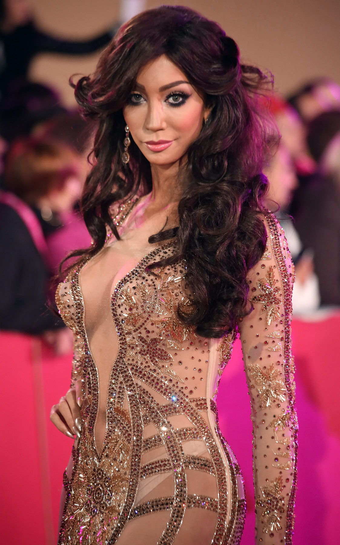 Yasmine Petty on the 'magenta carpet' at Life Ball 2013 at the square in front of the city hall of Vienna, Vienna, Austria.